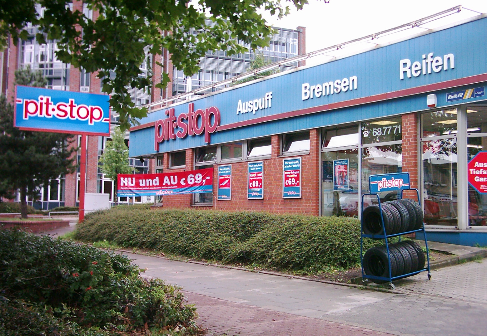 Branch of Pit-Stop in Hamburg, Germany.